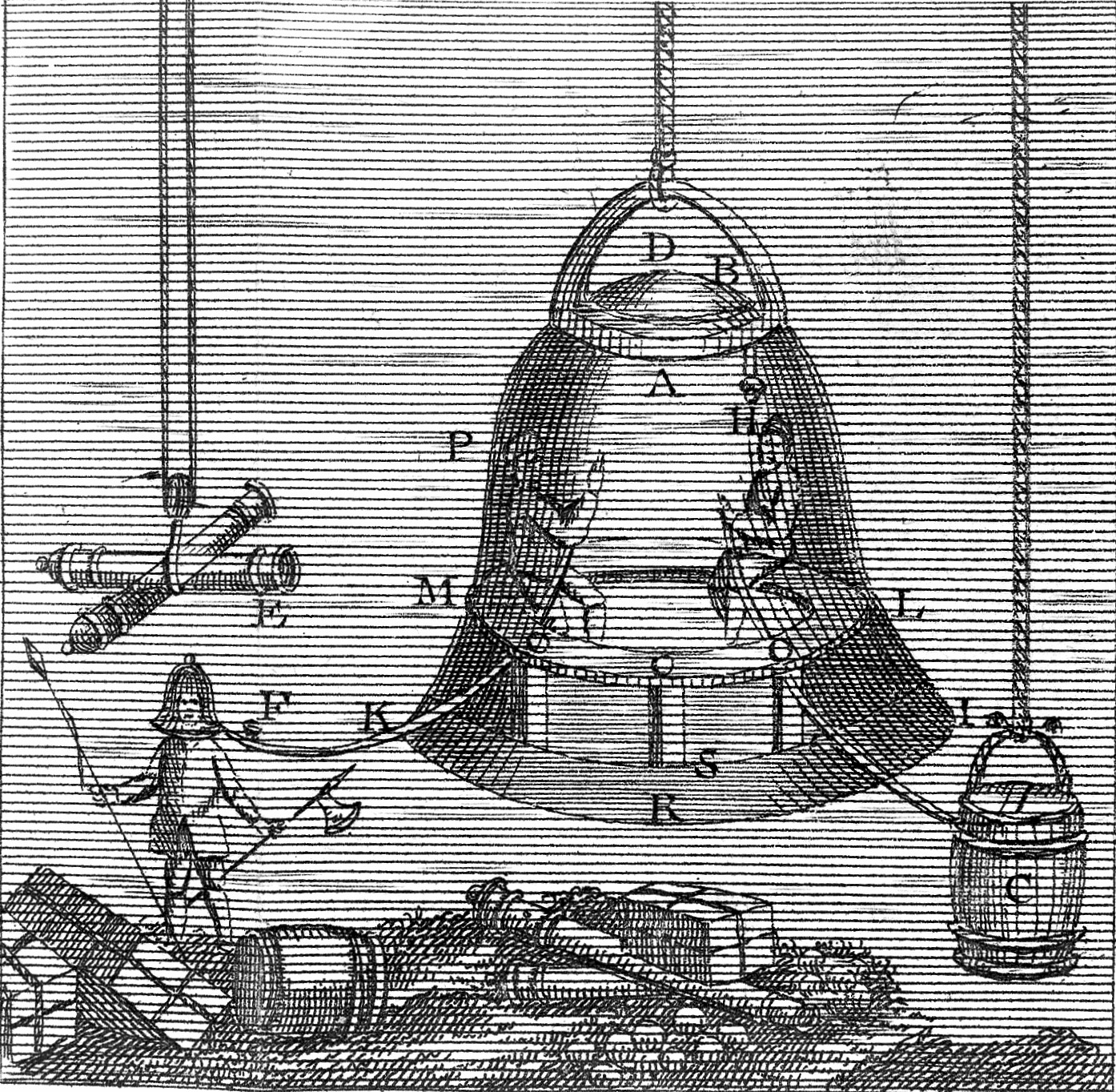 Halley's diving bell Rare Books Keywords: Edmund Halley; William Hooper